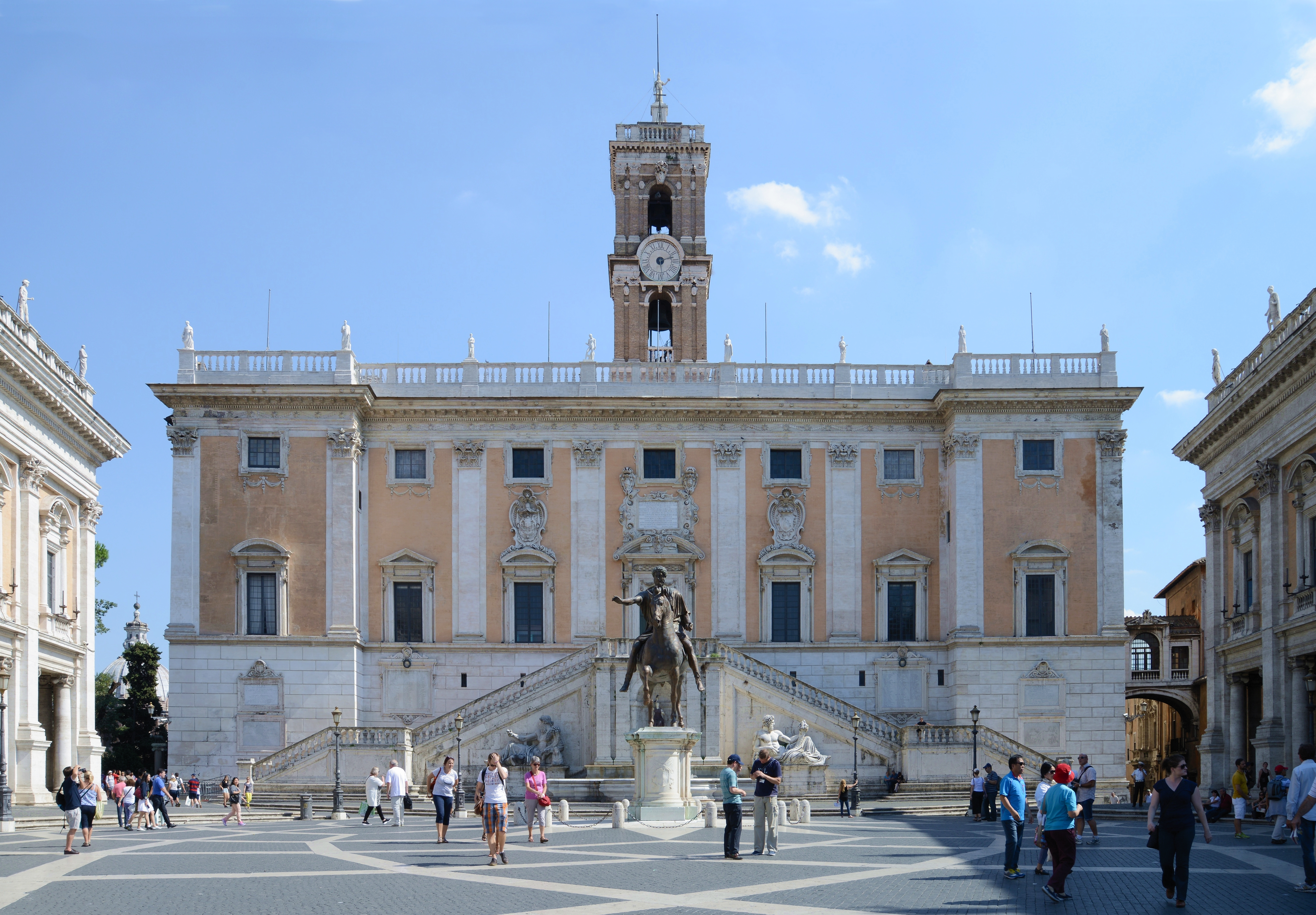 Palacio del Senatorre in the Capitolinie Hill, Rome